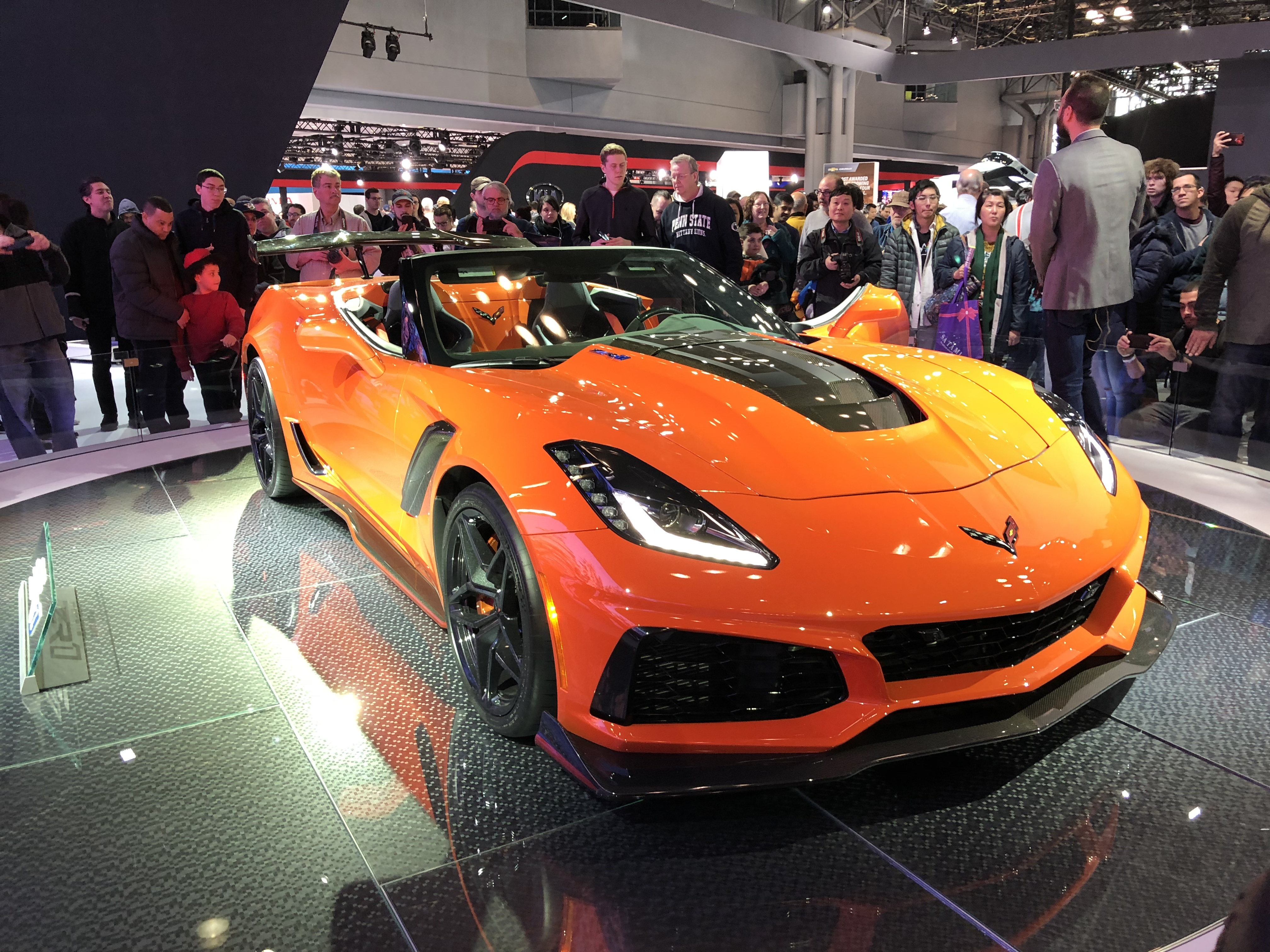 2019 Corvette ZR1 Roadster at the 2018 New York International Auto Show